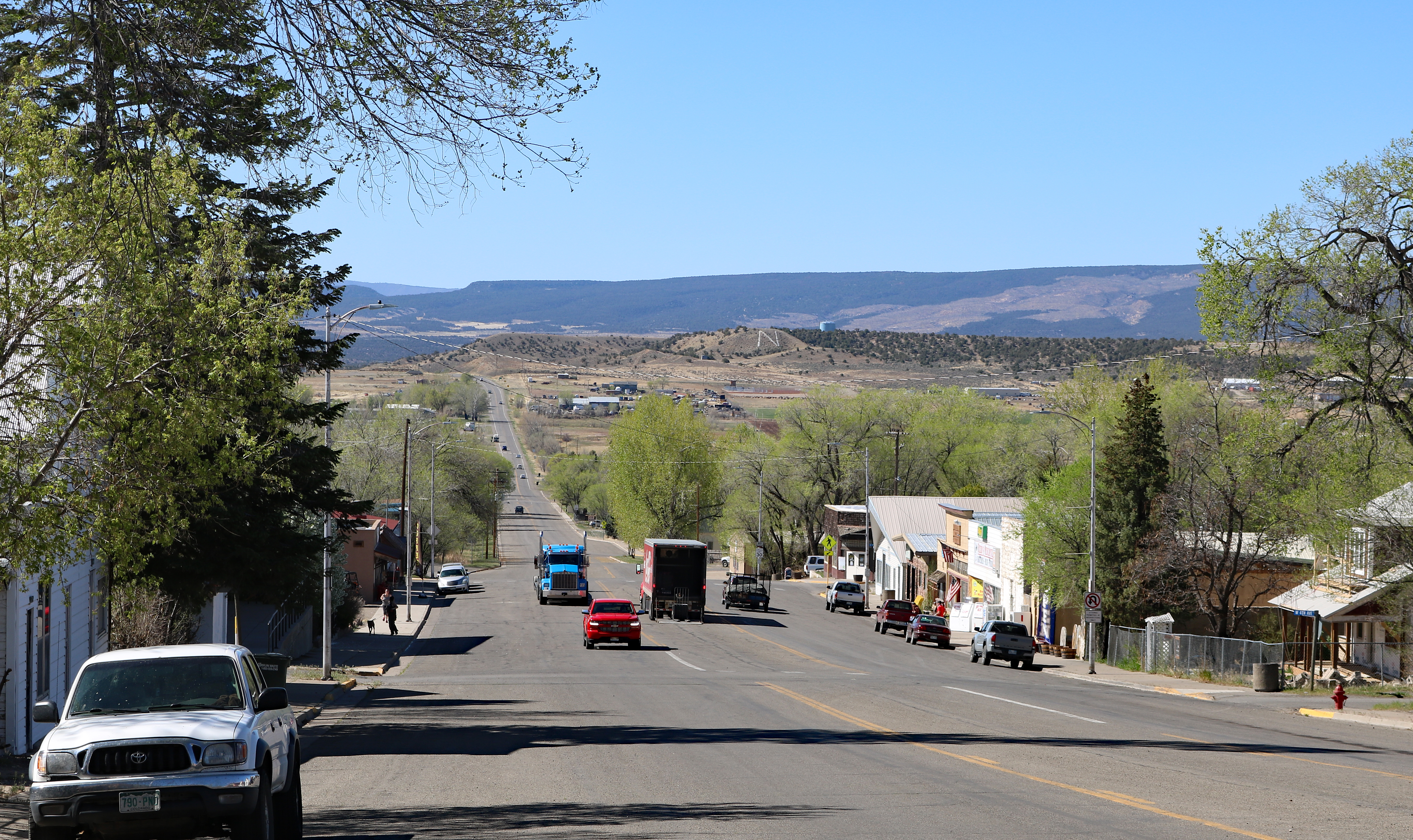 Looking south from the top of Main Street (which is also ||W|Colorado State Highway 97 ) in Nucla, Colorado.